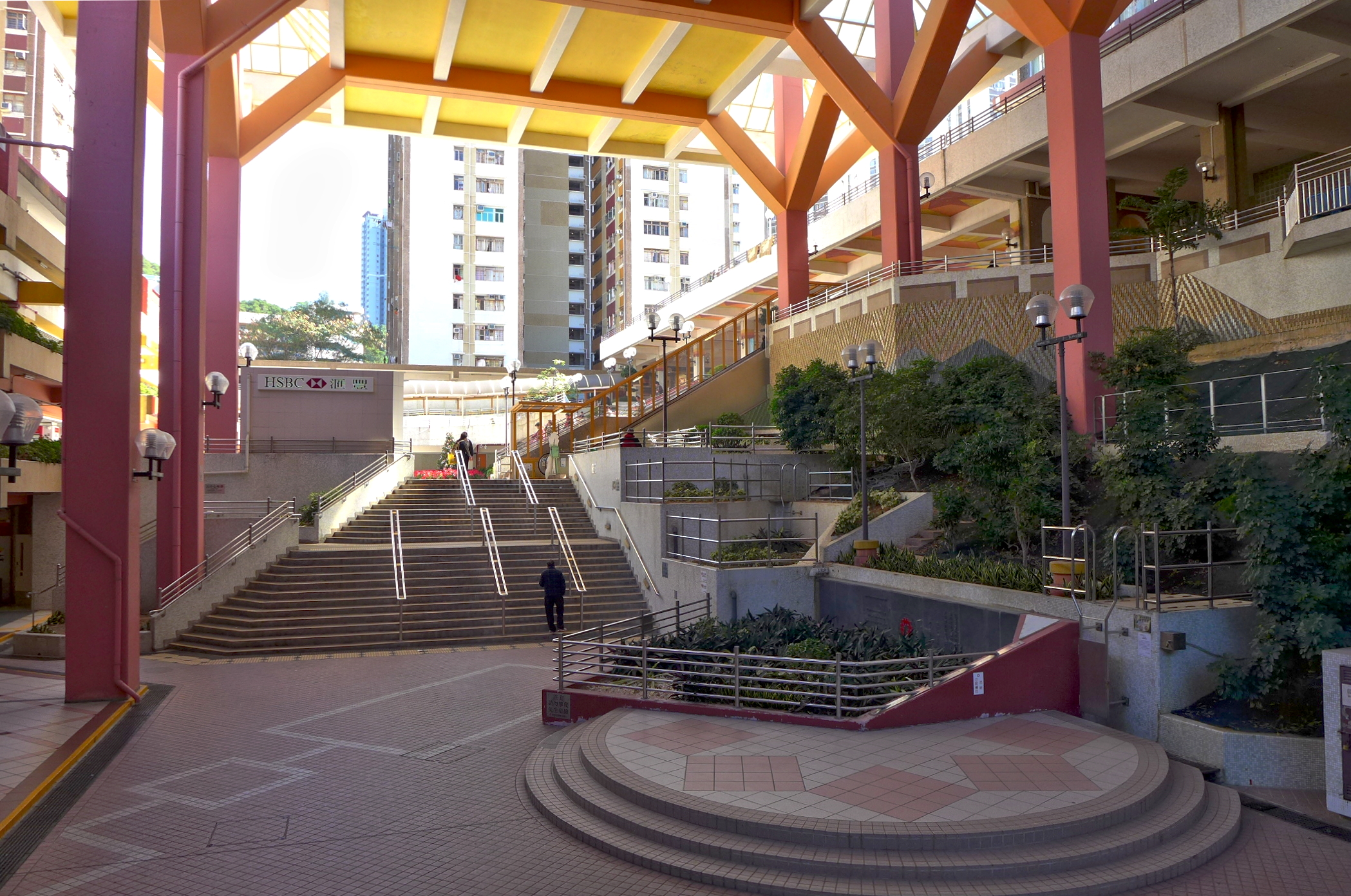 Lok Wah North Estate Outside plaza